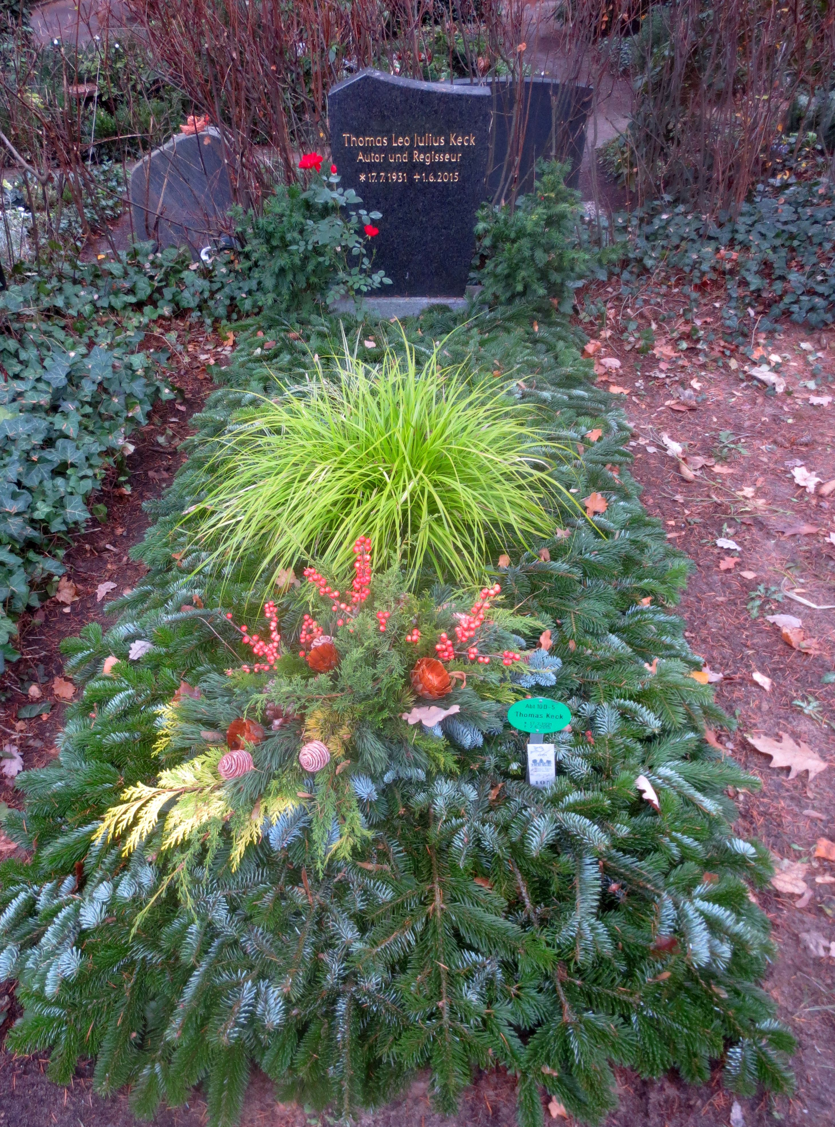 Grave of the voice actor, voice acting director and screenwriter Thomas Keck on the Friedhof Heerstraße cemetery in Berlin-Westend (grave site: 10-D-5).